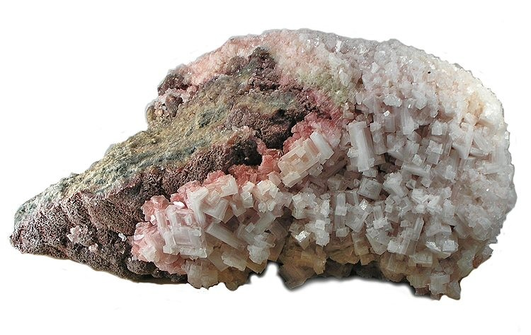 Halite Locality: Searles Lake, San Bernardino County, California, USA (Locality at ) Bidders went nuts for the normal-sized specimens of this material, which we put up for auction with the following description: "Okay, halite is salt, but for one thing, it is just as legitimate a mineral as any other, even if you CAN eat it (not this though - it contains bacteria so dont lick it!). This batch of gorgeous halite specimens was mined recently in California, and they are REALLY distinctive. Look at the amazingly fine structure of the crystals and beautiful bright pink color! But more than that, they have this wonderful contrast with a uniquely new matrix covered with minute nahcolite . Bottom line: it is just a plain stunningly pretty mineral specimen from a recent find. NOTE that they are sensitive to humidity." This is the same material, but a GIGANTIC specimen, richly covered with these pretty crystals, a very light pink hue. 55.0 x 26.0 x 26.0 cm